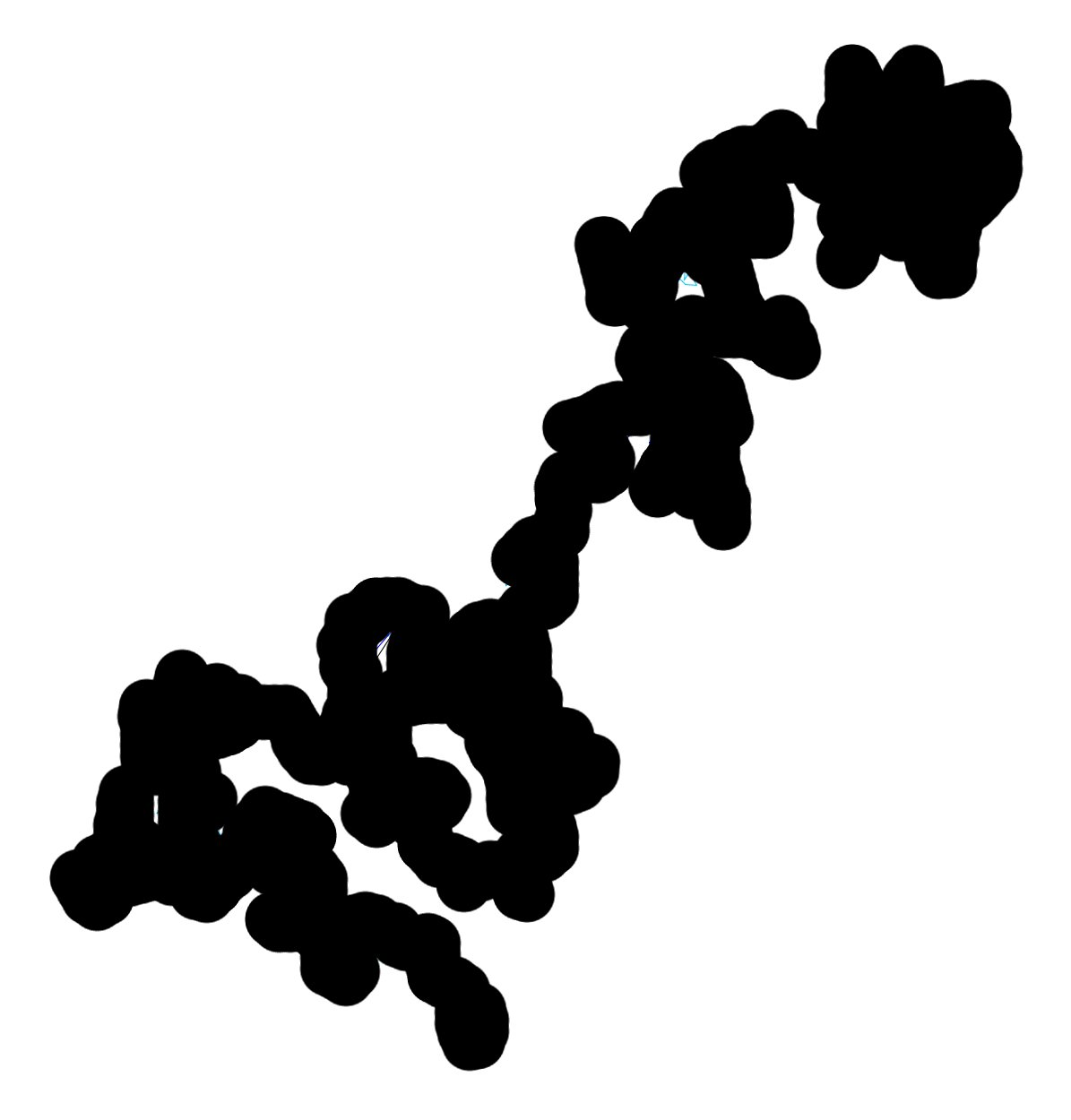 A 2-dimensional Wiener sausage, consisting of all points within a fixed distance of Brownian motion.